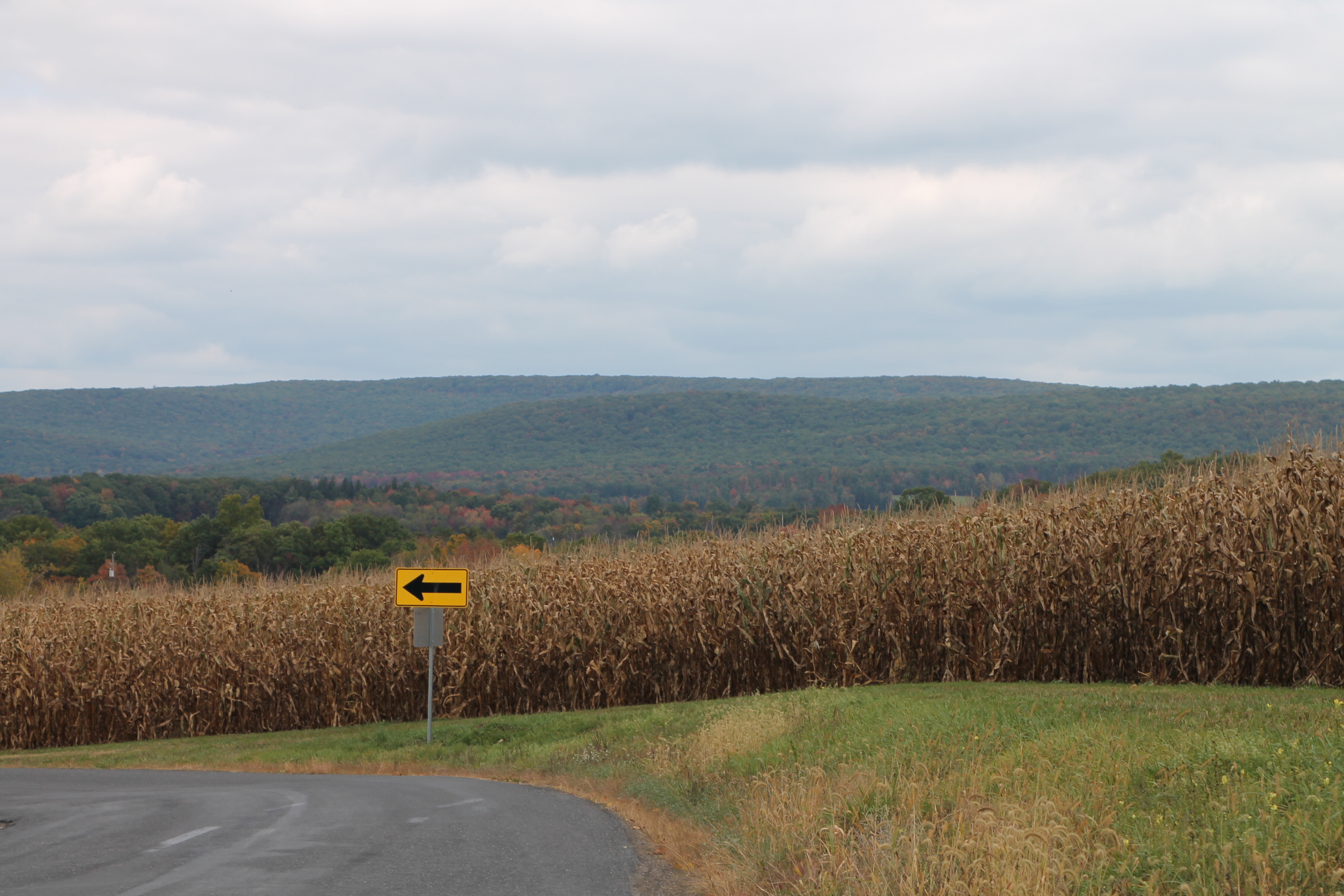 Catawissa Mountain from Ringtown Mountain Road. The mountain is about 3 miles (5 kilometers) to the north